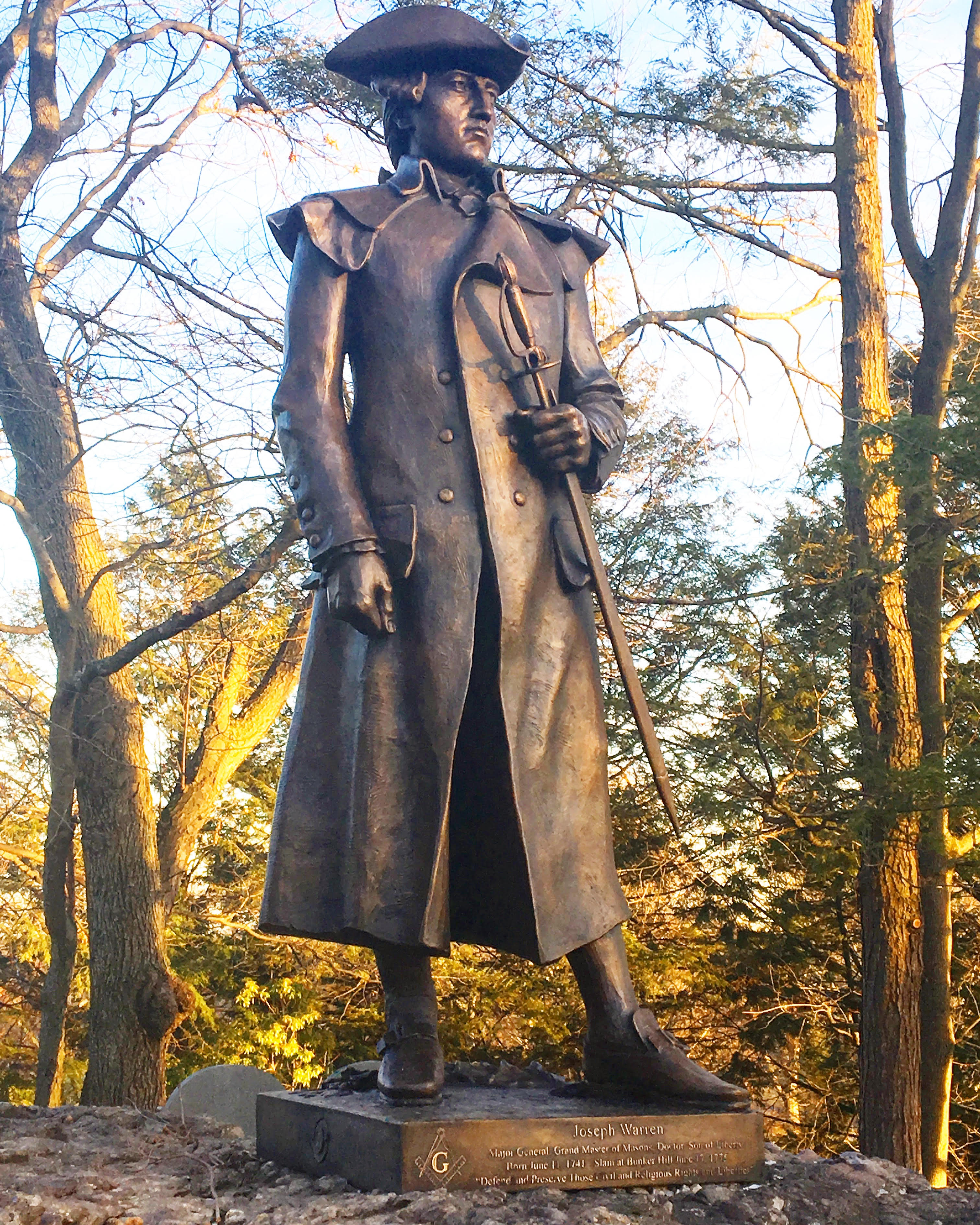 6th Masonic District Most Worshipful Joseph Warren Statue located at Forest Hills Cemetery, Boston MA.